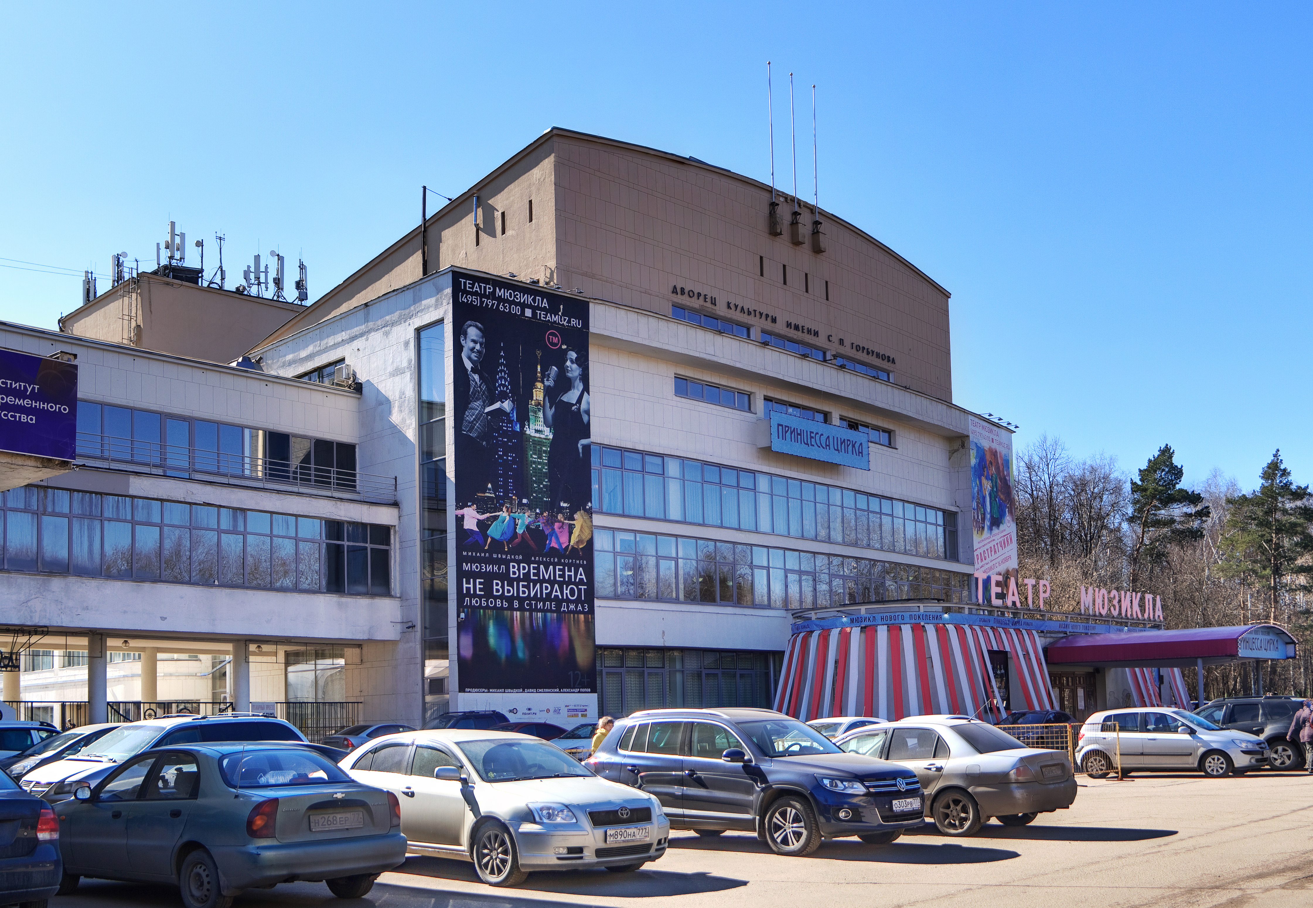 Gorbunov Palace of Culture, Novozavodskaya Street 27, Moscow